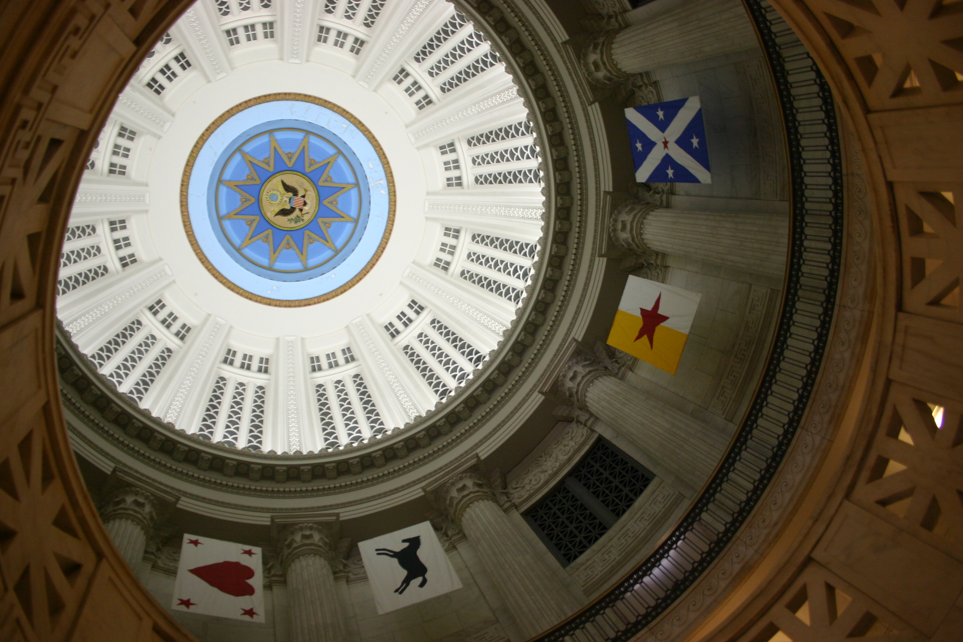 View inside Boston's Custom House Tower